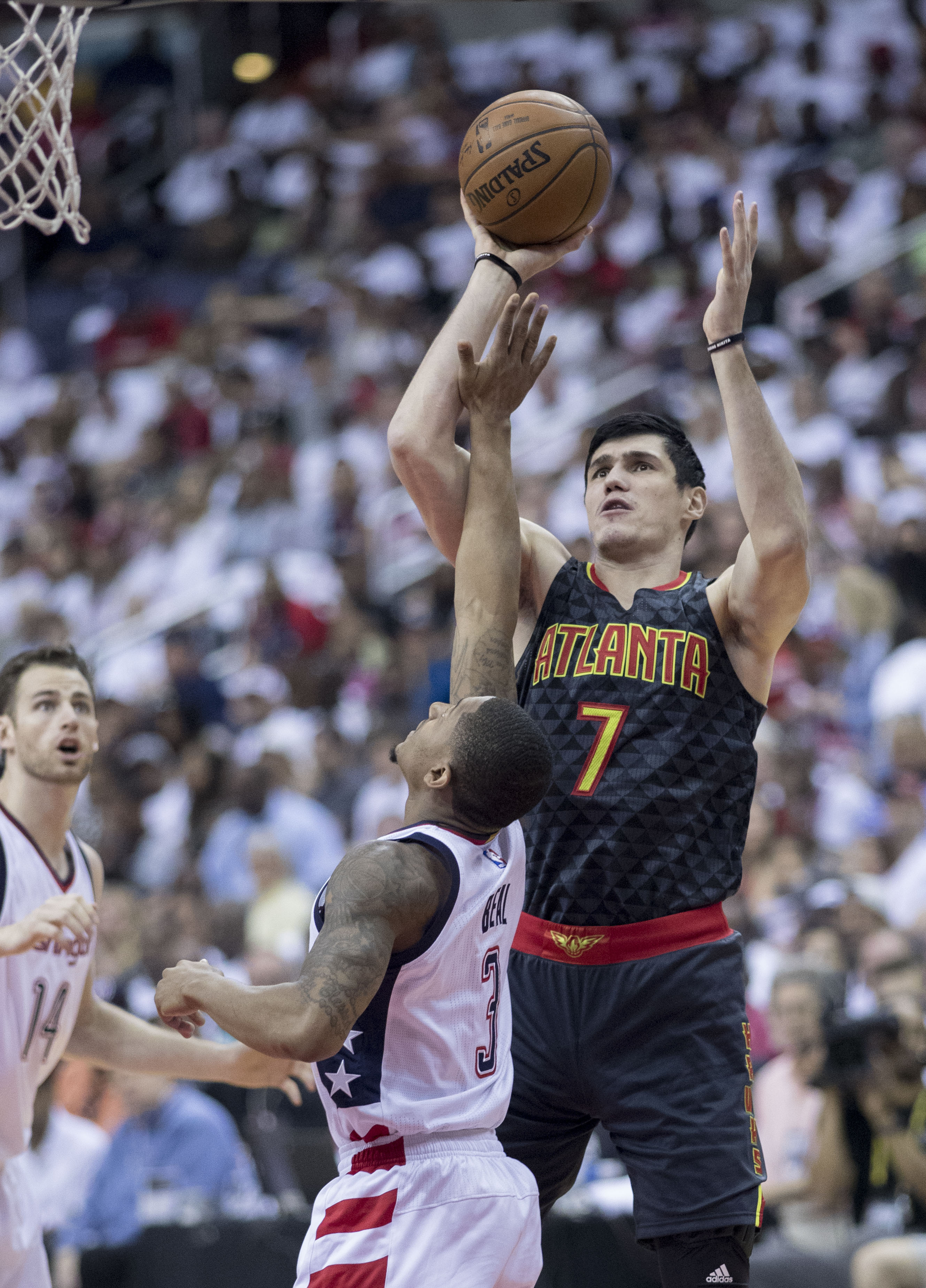 Hawks at Wizards Round 1 Playoffs 4/16/17